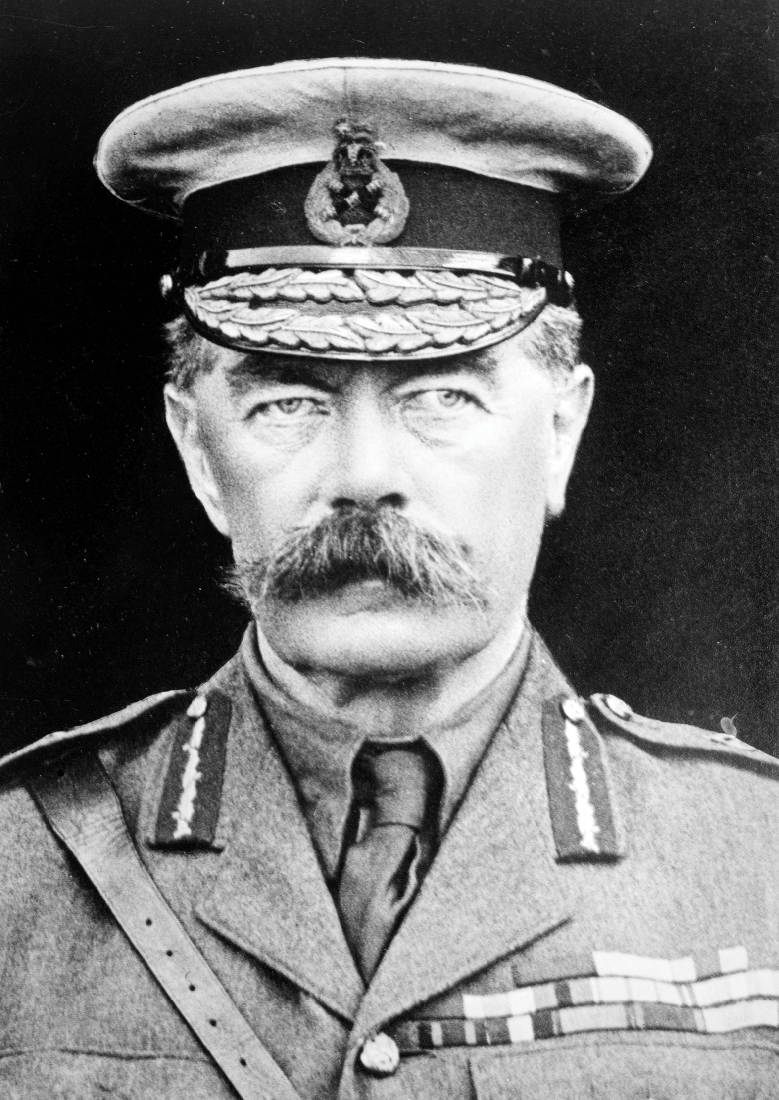 Portrait of Horatio Herbert Kitchener.